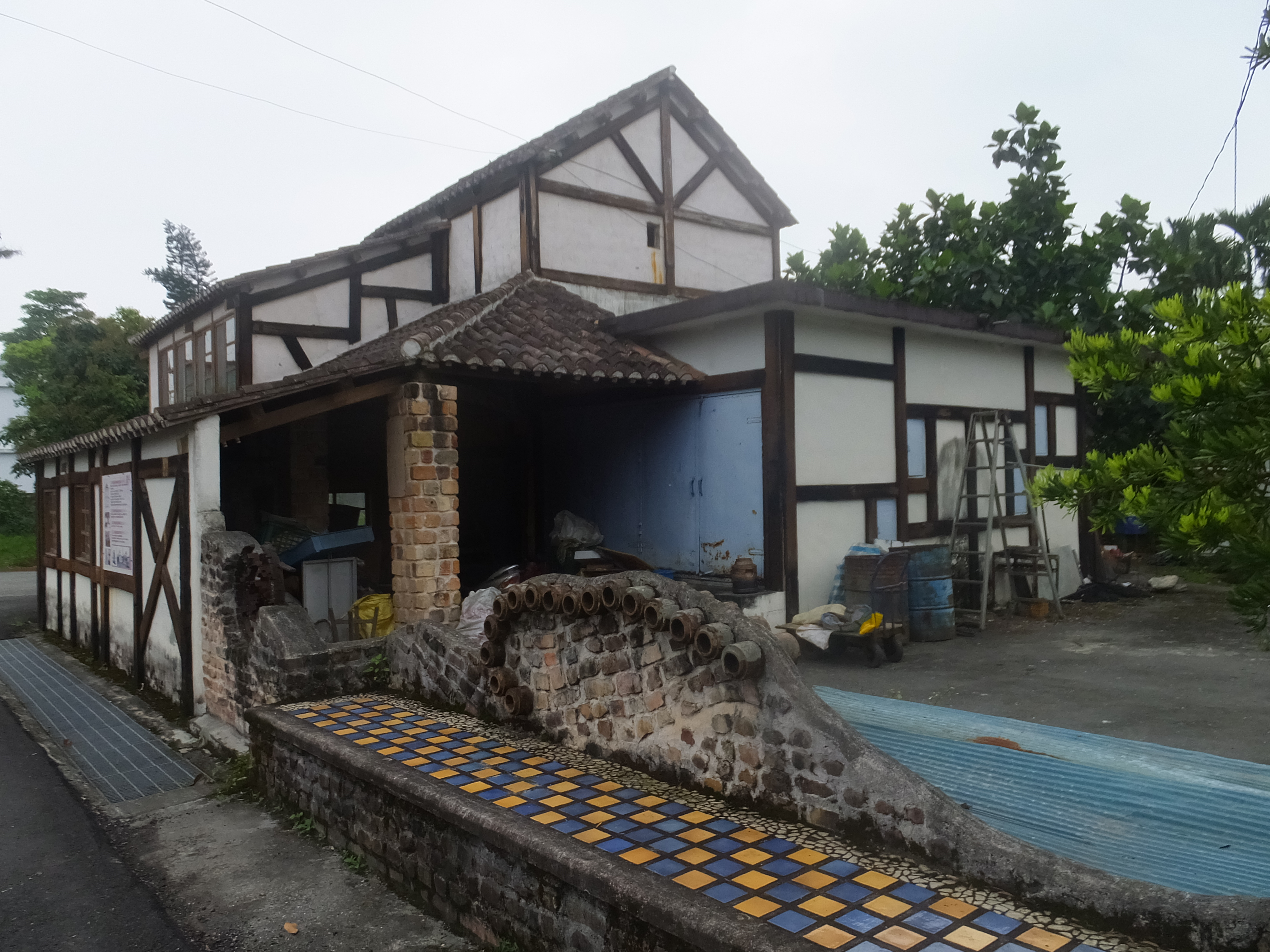 Fenglin Tobacco Barn 鳳林菸樓